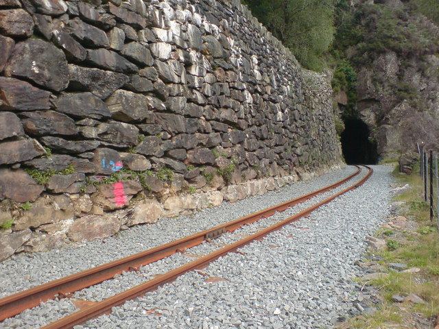 Welsh Highland Railway at Aberglaslyn Track relaid prior to opening.